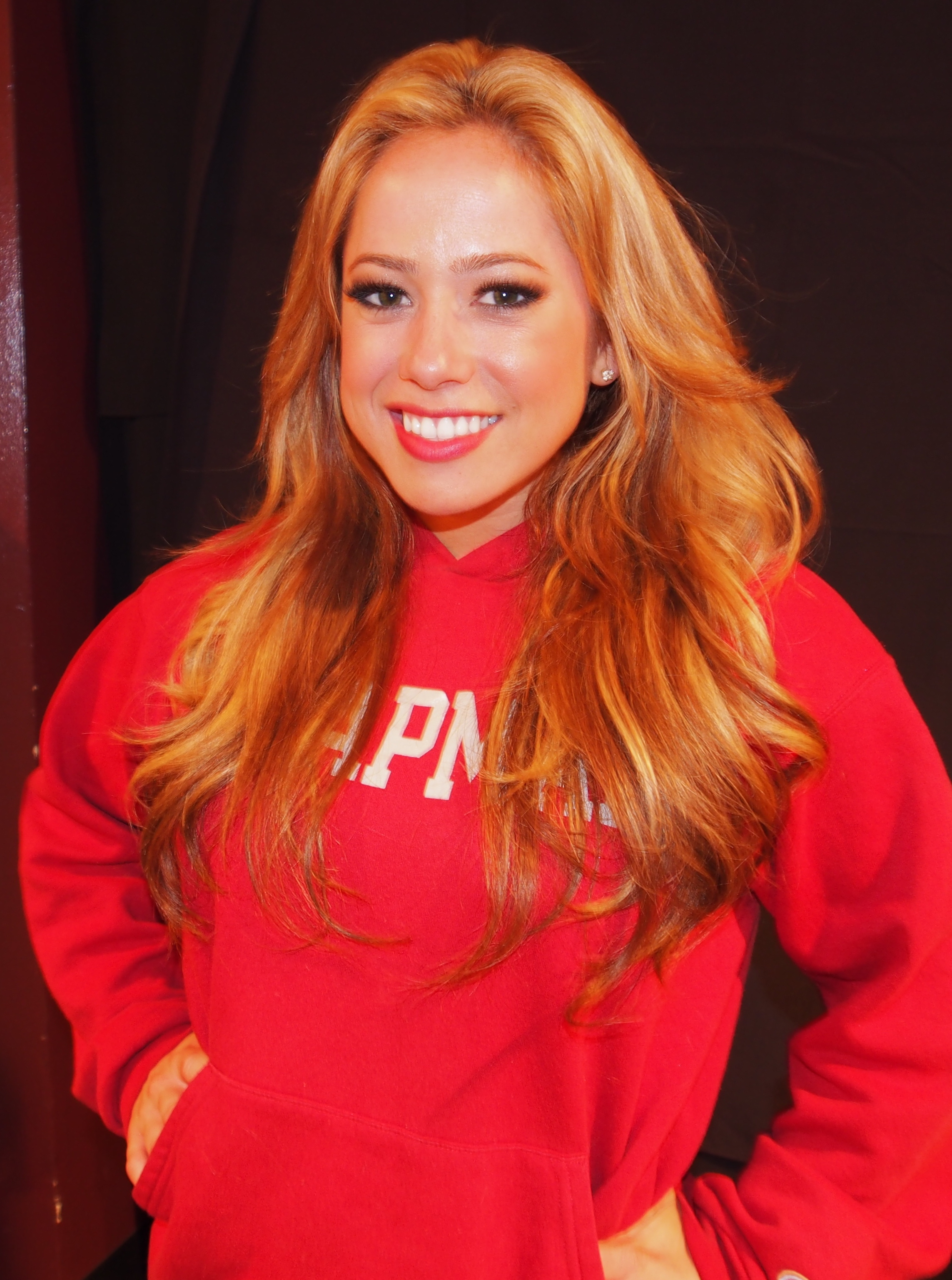 Sabrina Bryan backstage at DWTS Las Vegas